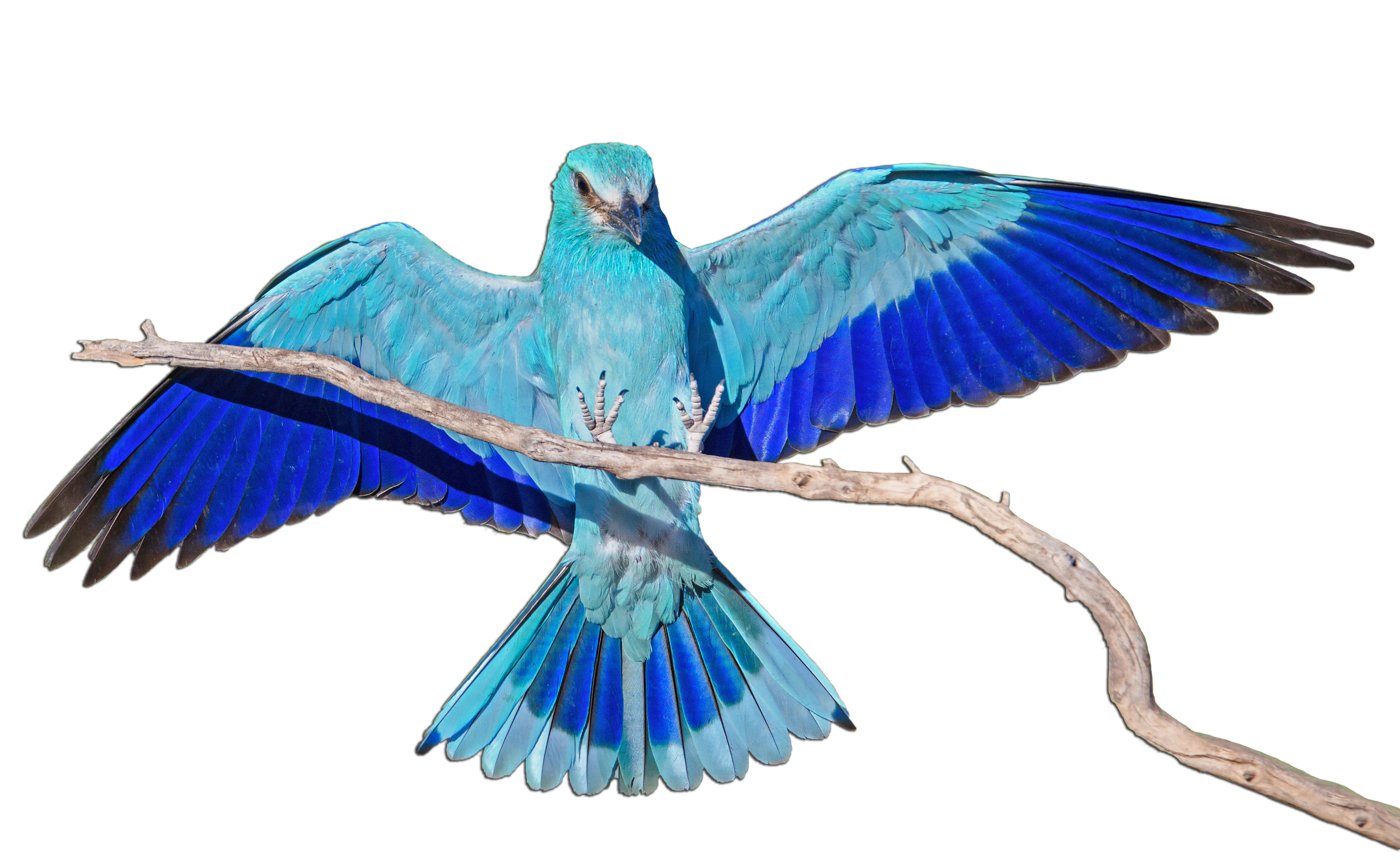 Coracias garrulus (European Roller)